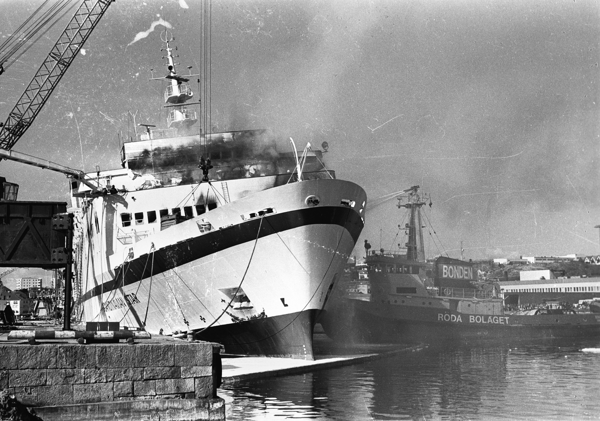 Cruiseferry MS Scandinavian Star in Lysekil harbour, Sweden. It was towed to Lysekil after a fire broke out during a cruise between Oslo, Norway and Fredrikshavn, Denmark, 7 April 1990. 157 passengers and two crewmembers lost their lives in the fire.